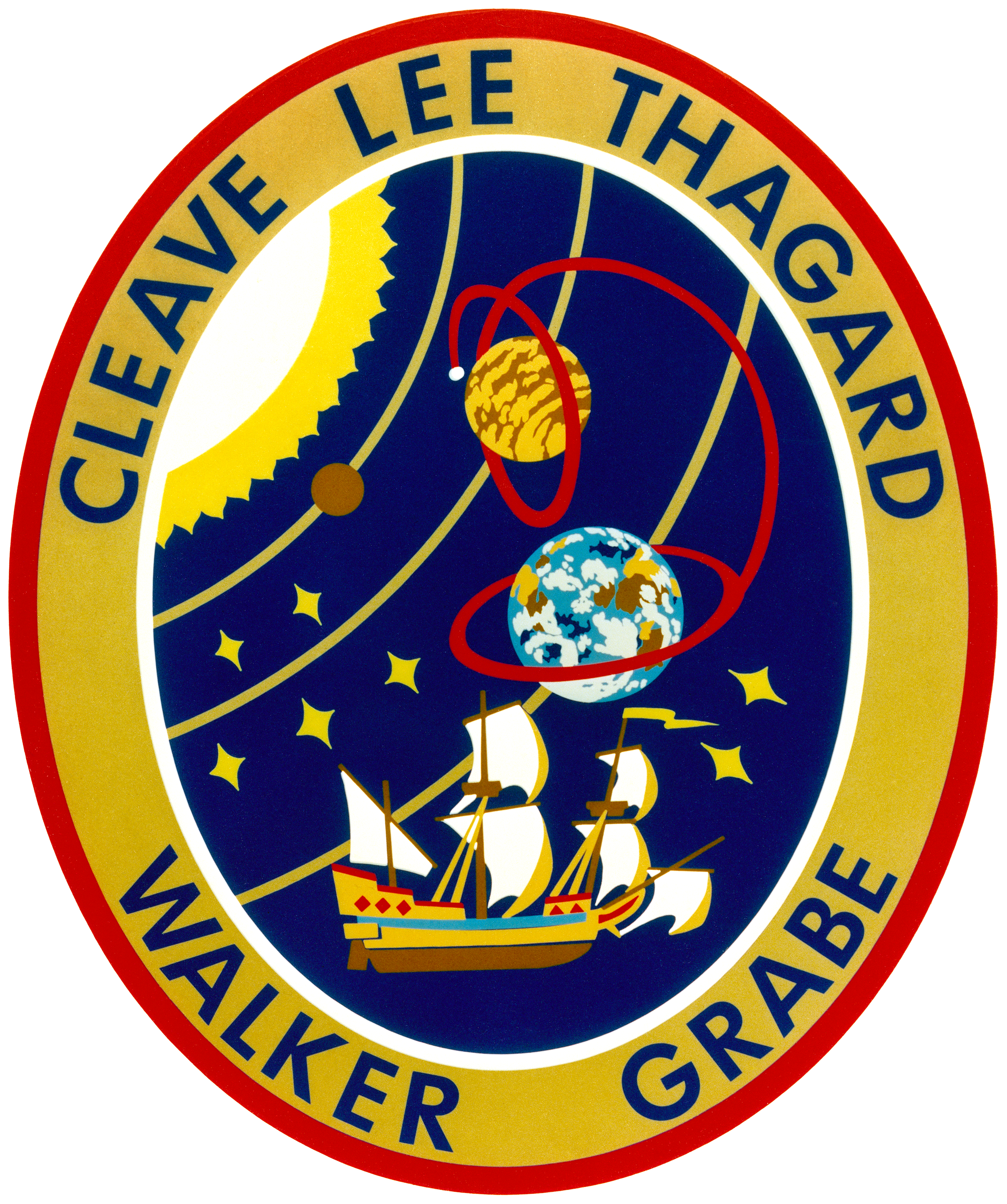 The STS-30 patch depicts the joining of NASA's manned and unmanned space programs. The sun and inner planets of our solar system are shown with the curve connecting Earth and Venus symbolizing the shuttle orbit, the spacecraft trajectory toward Venus, and its subsequent orbit around our sister planet. A Spanish caravel similar to the ship on the official Magellan program logo commemorates the 16th century explorer's journey and his legacy of adventure and discovery. Seven stars on the patch honor the crew of Challenger. The five-star cluster in the shape of the constellation Cassiopeia represent the five STS-30 crewmembers - Astronauts David Walker, Ronald Grabe, Norman Thagard, Mary Cleave and Mark Lee - who collectively designed the patch.